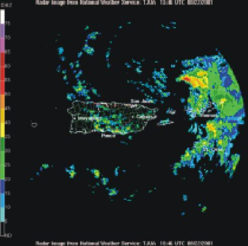 A radar image of tropical storm Dean (2001) when it was located to the northeast of Puerto Rico.